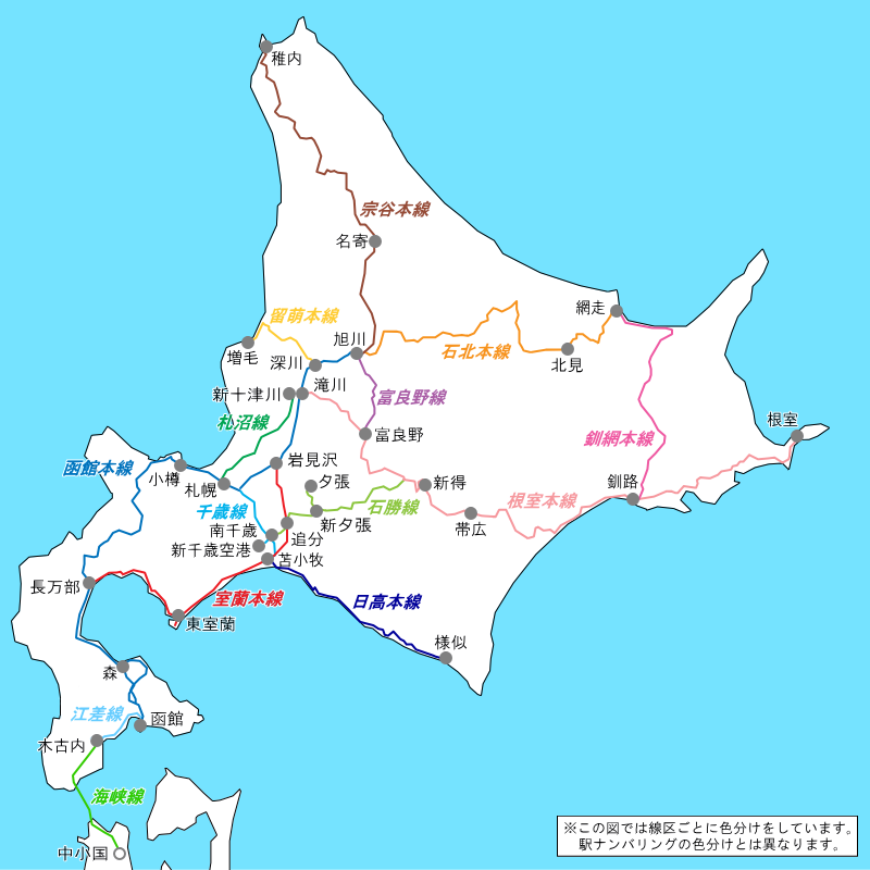 Railway lines of JR Hokkaido